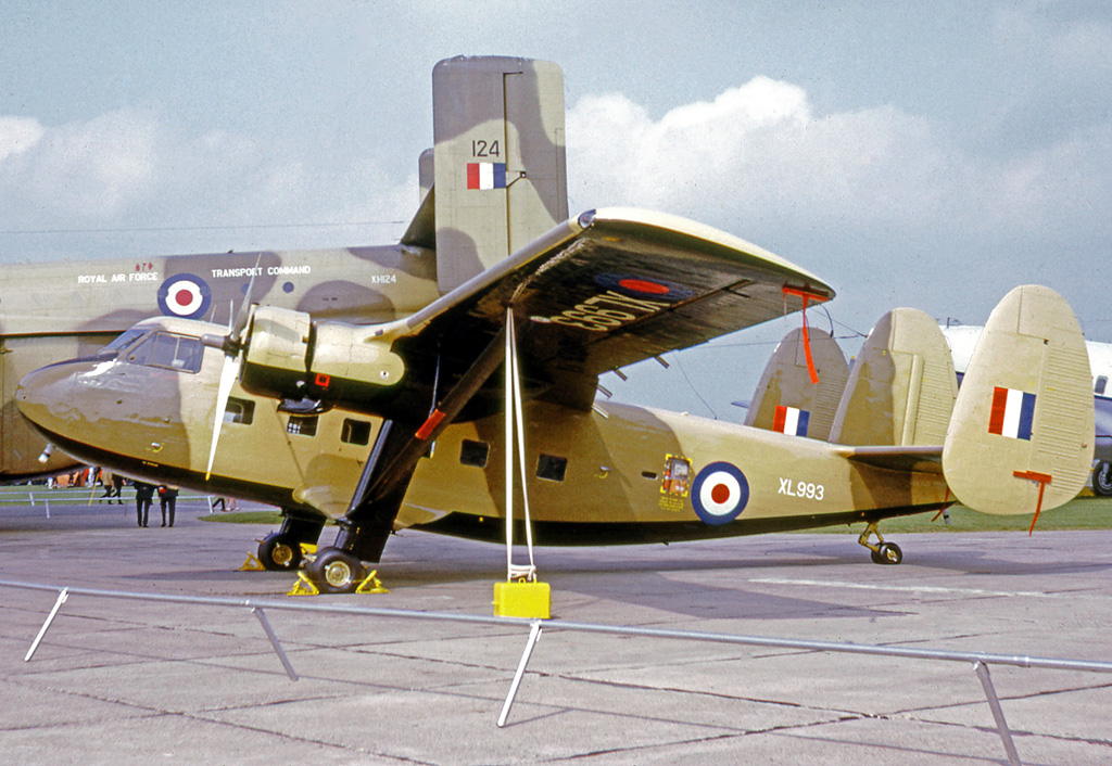 Scottish Aviation Twin Pioneer CC.1 XL993 wearing RAF Sand Camouflage in 1968